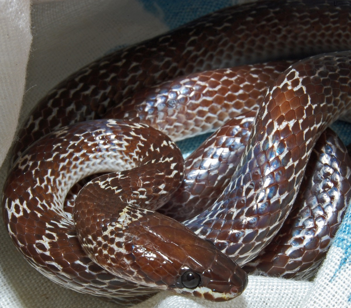 Lycodon capucinus, male, ca.59cm, from Bogor, West Java, Indonesia